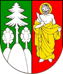 Coat of arms of Čadca, Slovakia